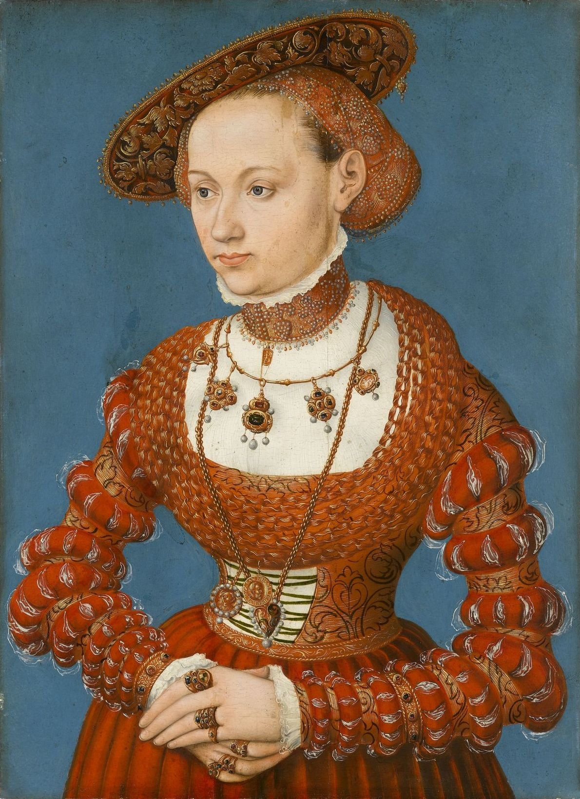 Agnes and Jobst von Hayn wear a necklace with a medallion of John Frederick the Magnanimous and a ring with the Hayn family crest.